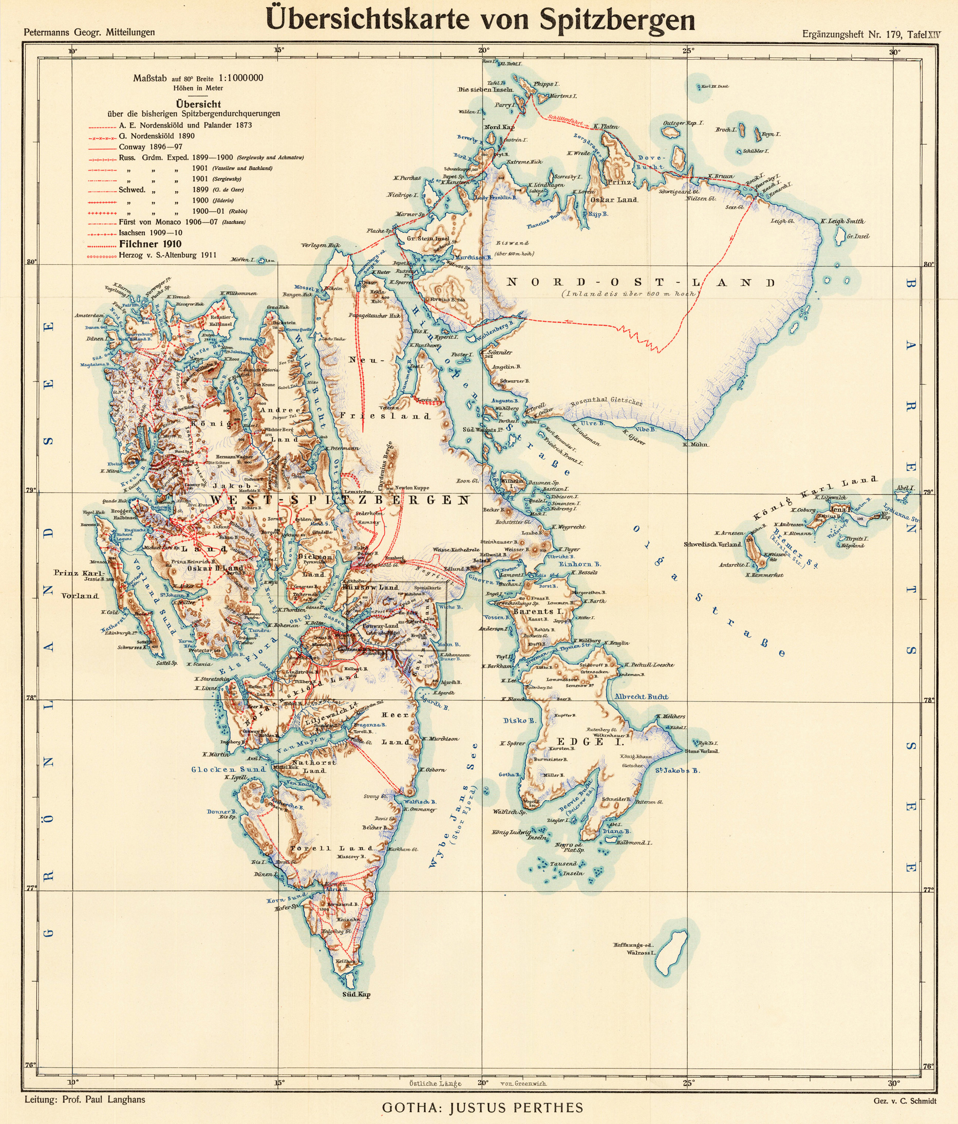 Map of Spitzbergen, an Artic archipelago belonging to Norway